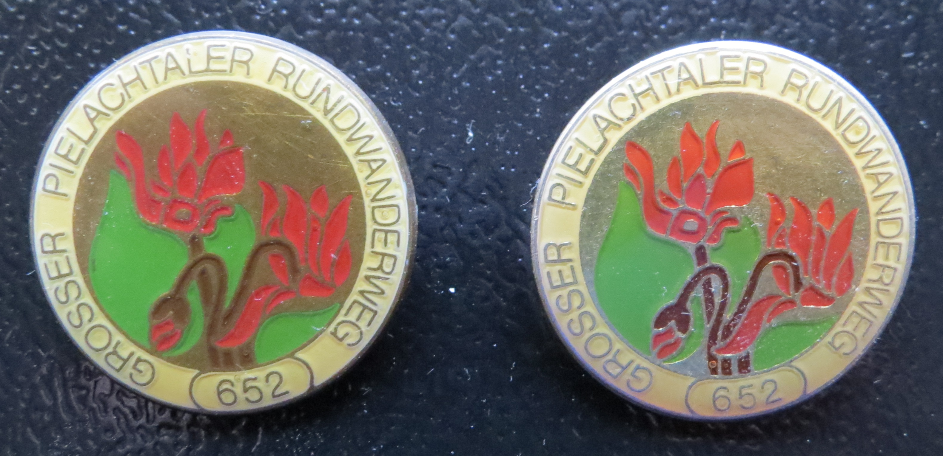 Hiking pin for the Pielachtaler Rundwanderweg in bronze and silver